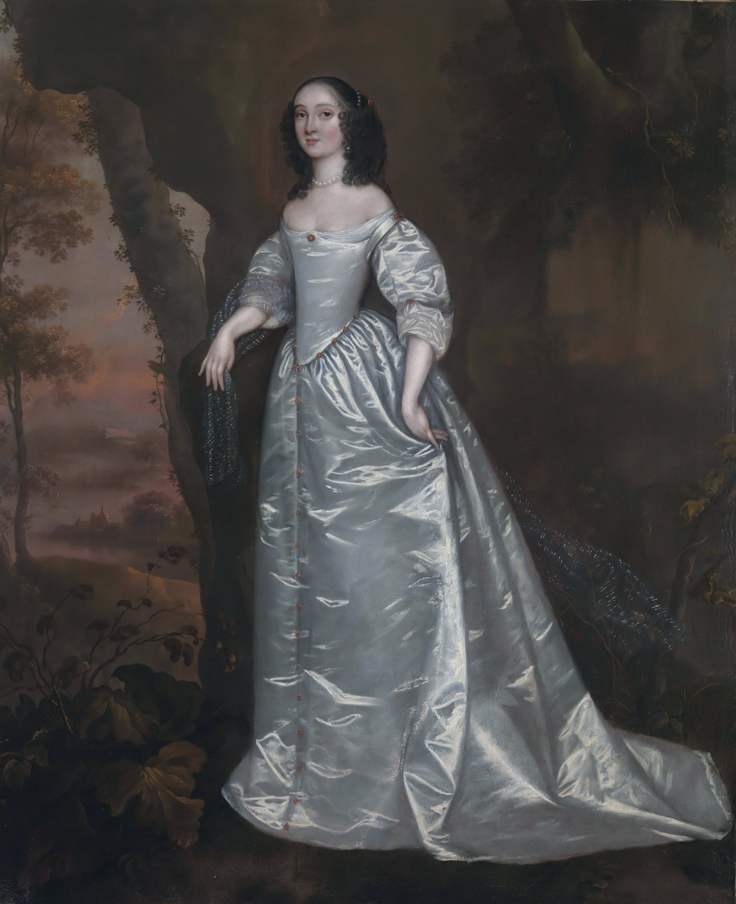 Portrait of an unknown lady 1650-1655